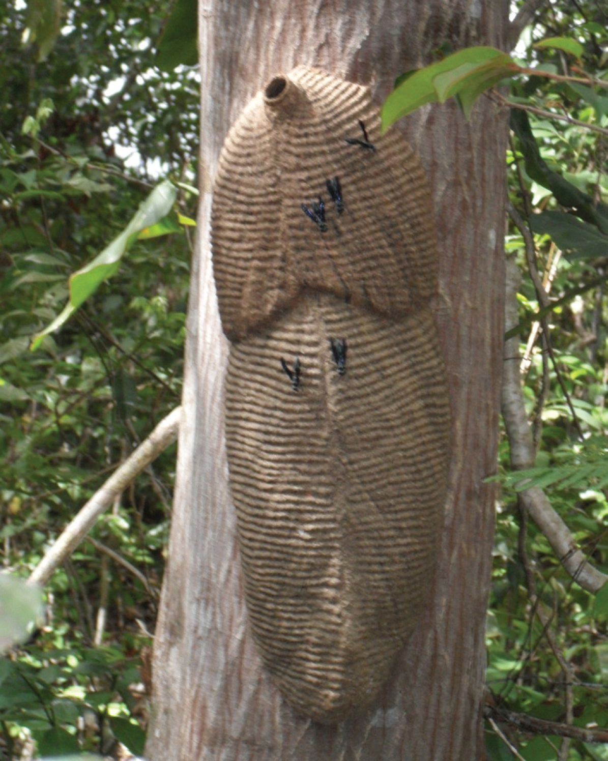 Nest of Synoeca septentrionalis collected in Santa Terezinha in the state of Bahia.